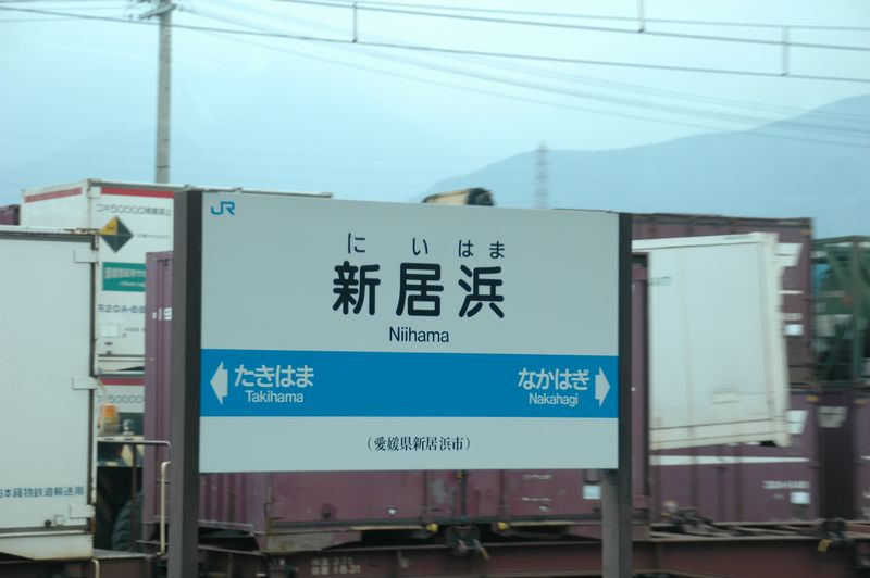 JR-Shikoku(JAPAN) Yosan-Line, Niihama Sta. Station name sign. photo by (2005.9.17)